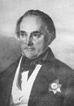 Eduard Heinrich von Flottwell. This man died in 1865. So, is correct the licence PD-old.